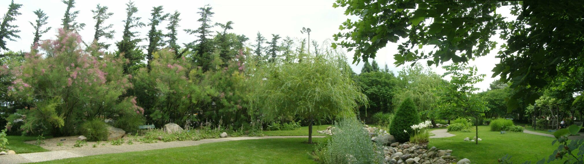 The main garden area of the Warsaw, Indiana, USA, Biblical Garden.